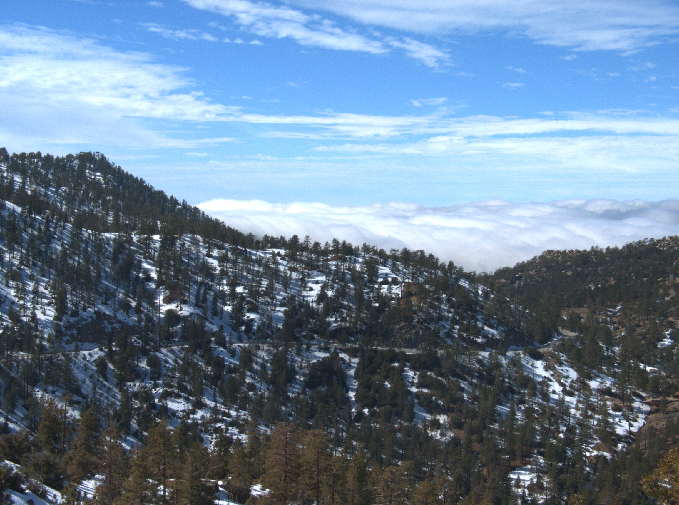 View west of a lower section of the Angeles Crest Highway, and over the ridge to clouds covering the Western San Gabriel Mountains, southern California. Taken just west of Cloudburst Summit, with snow, in the Angeles National Forest.